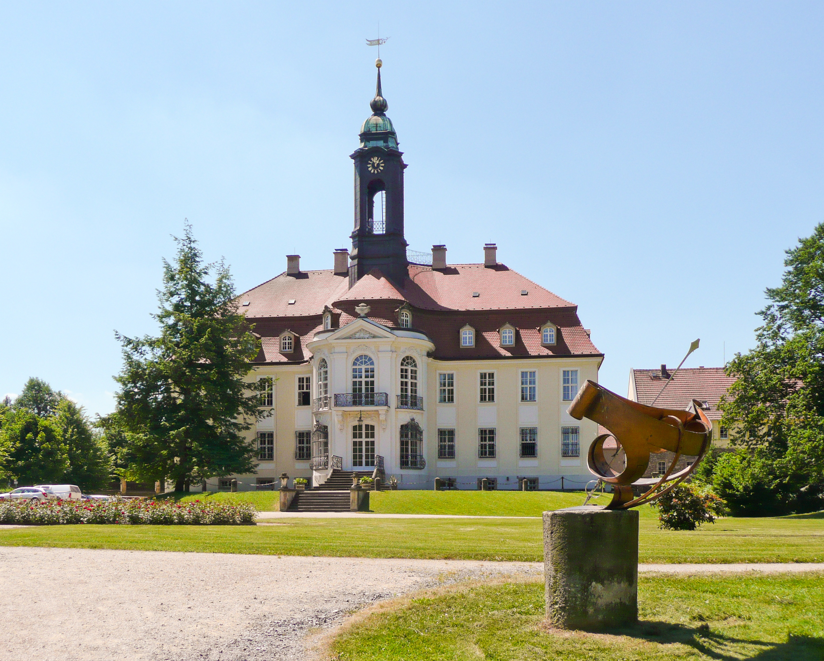 This image shows Reinhardtsgrimma castle in Reinhardtsgrimma in Saxony.